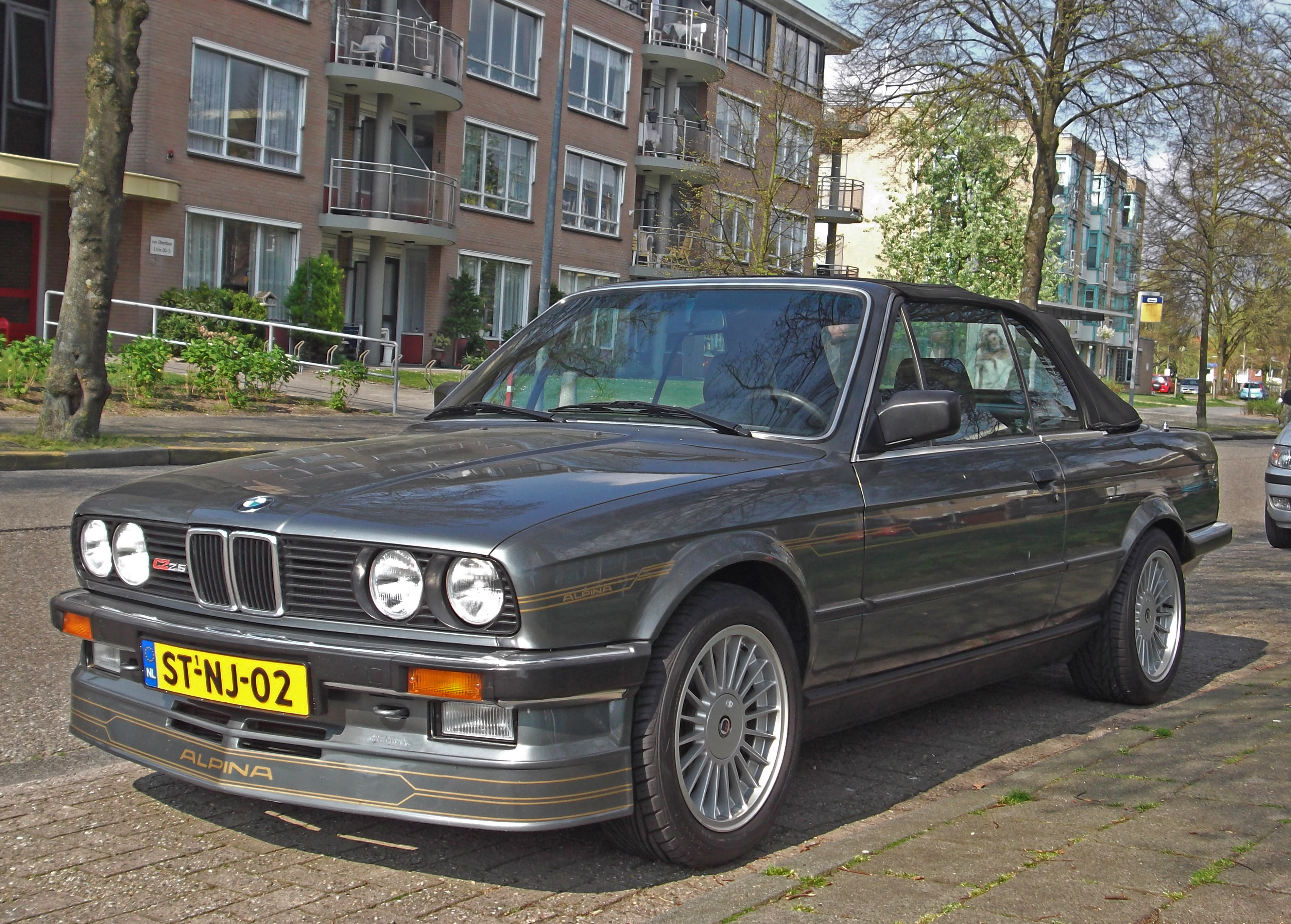 1987 Alpina C2 2.5 Cabriolet. Vehicle registration enquiry results Jurisdiction Netherlands Registration ST-NJ-02 Engine code 2494cc 6cyl, 124kW Compliance date 1987-03-13 (first in traffic)In NL since 1998-01 Year of manufacture 1987 Weight 1300 kg (empty)